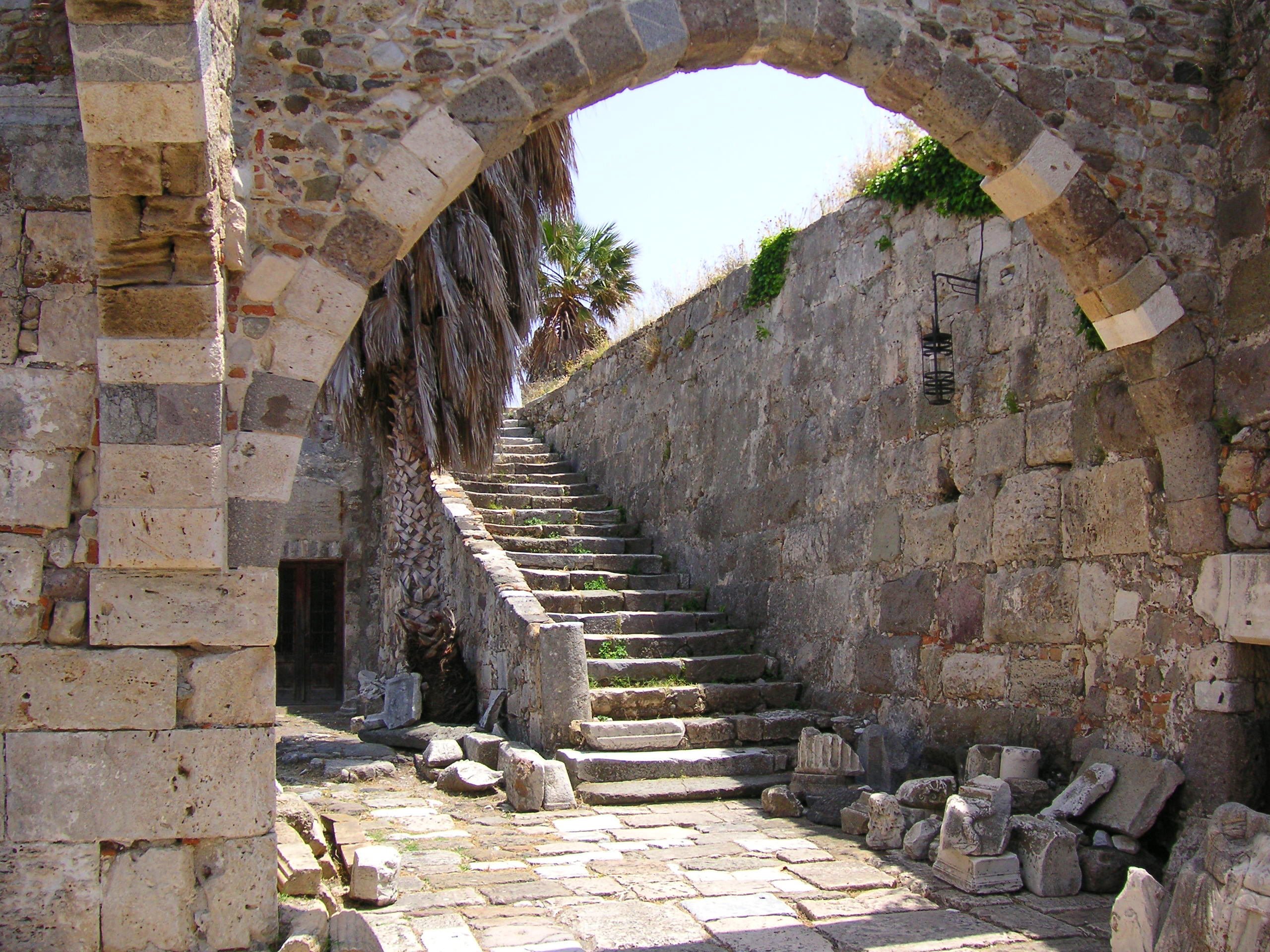 Kos, Knight's Castle